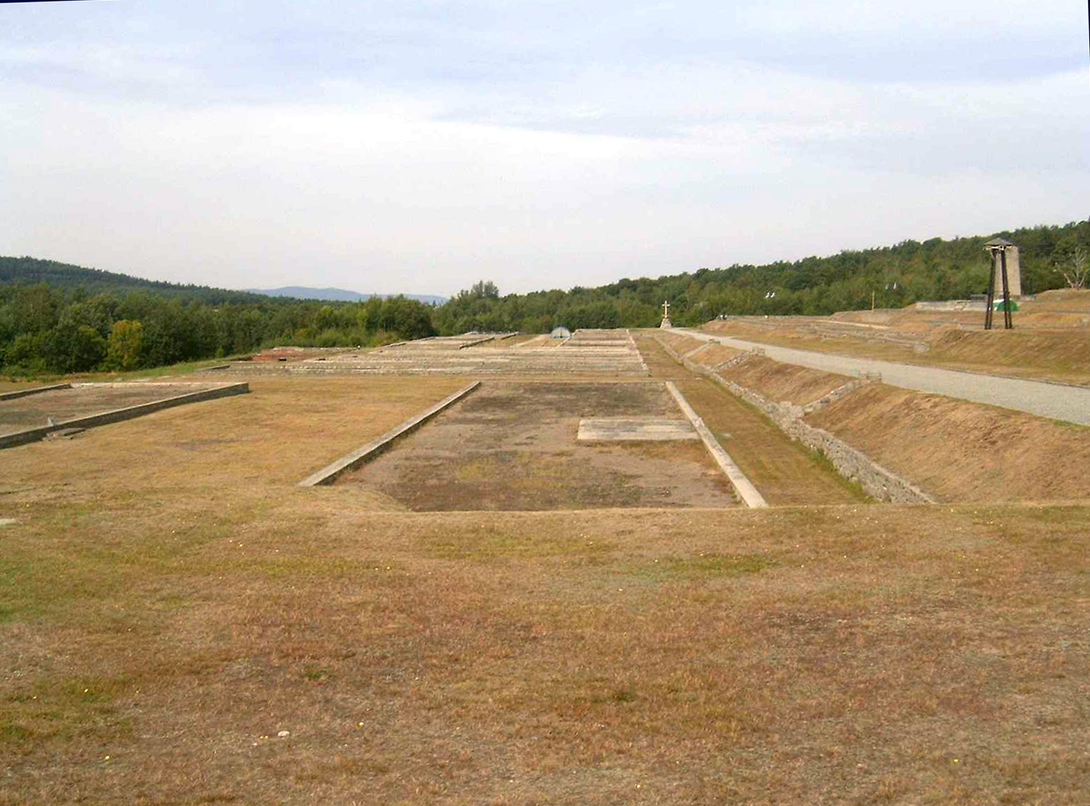 concentration camp Gross-Rosen